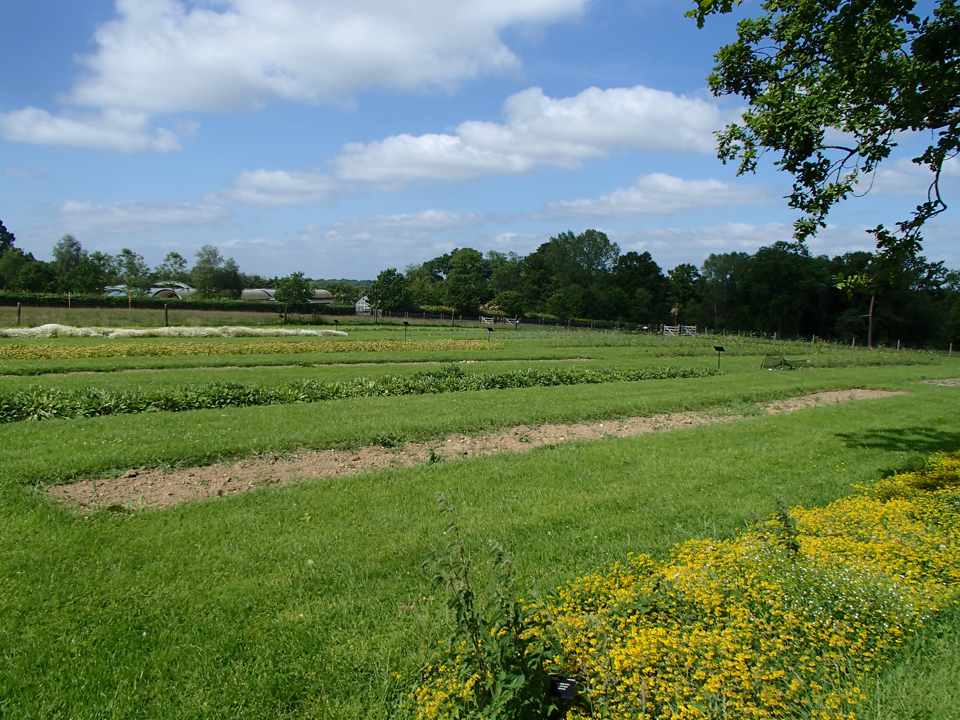 The seed beds of the UK Native Seed Hub, Royal Botanical Gardens, Kew. As part of the Millennium Seed Bank Partnership, Located at Wakehurst place, West Sussex, England.